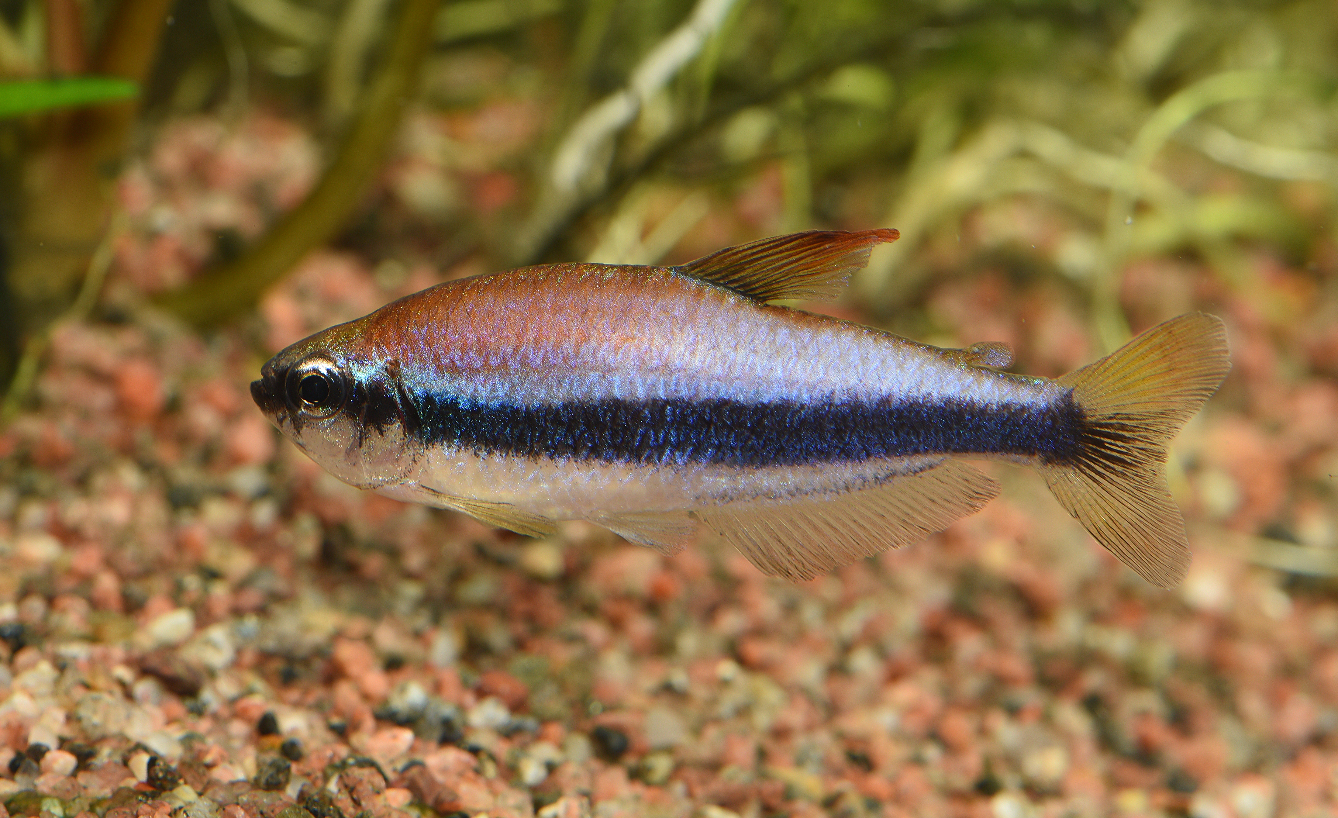 Male of royal tetra, Inpaichthys kerri in aquarium